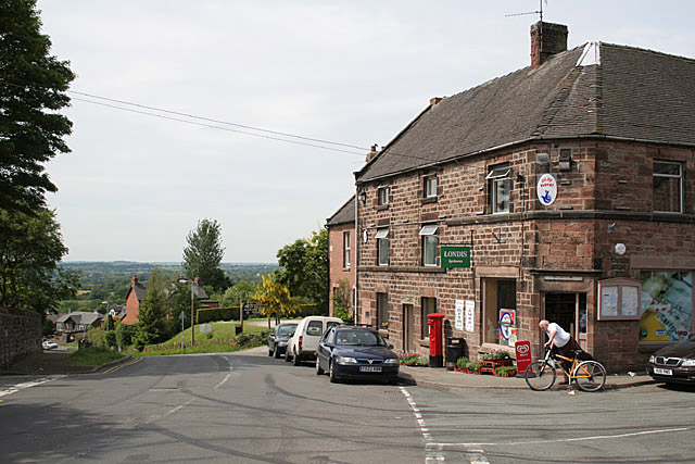 Ipstones, the corner shop. This shop, part of the Londis franchise was doing a brisk trade even on Sunday morning.